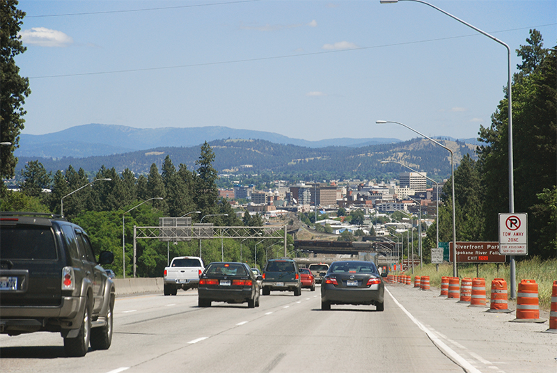 Picture of Interstate 90 descending Sunset Hill into Spokane, Washington.